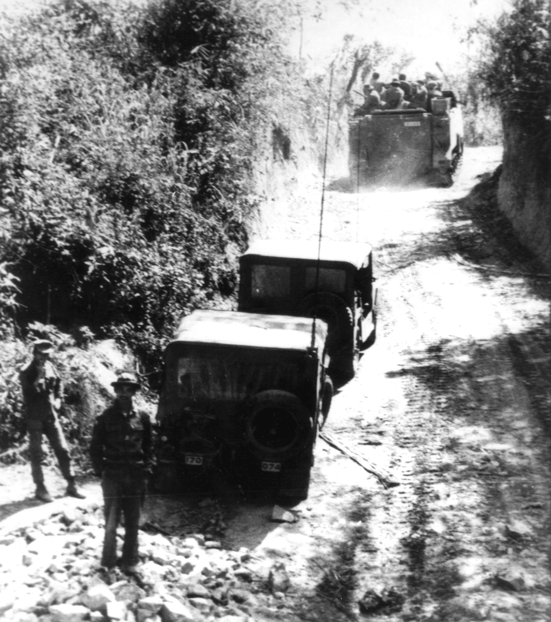 ACAV's OF SOUTH VIETNAMESE 1ST ARMORED BRIGADE ON ROUTE 9 IN LAOS, 1971.